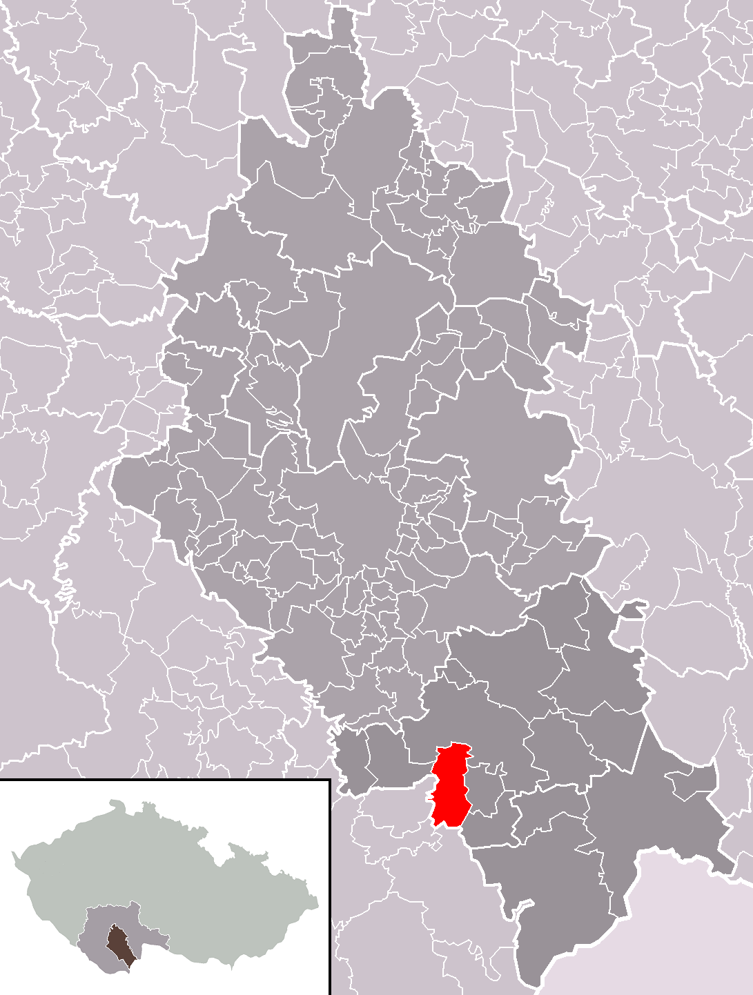 Location of Slavče municipality within České Budějovice District and administrative area of Trhové Sviny as a Municipality with Extended Competence.